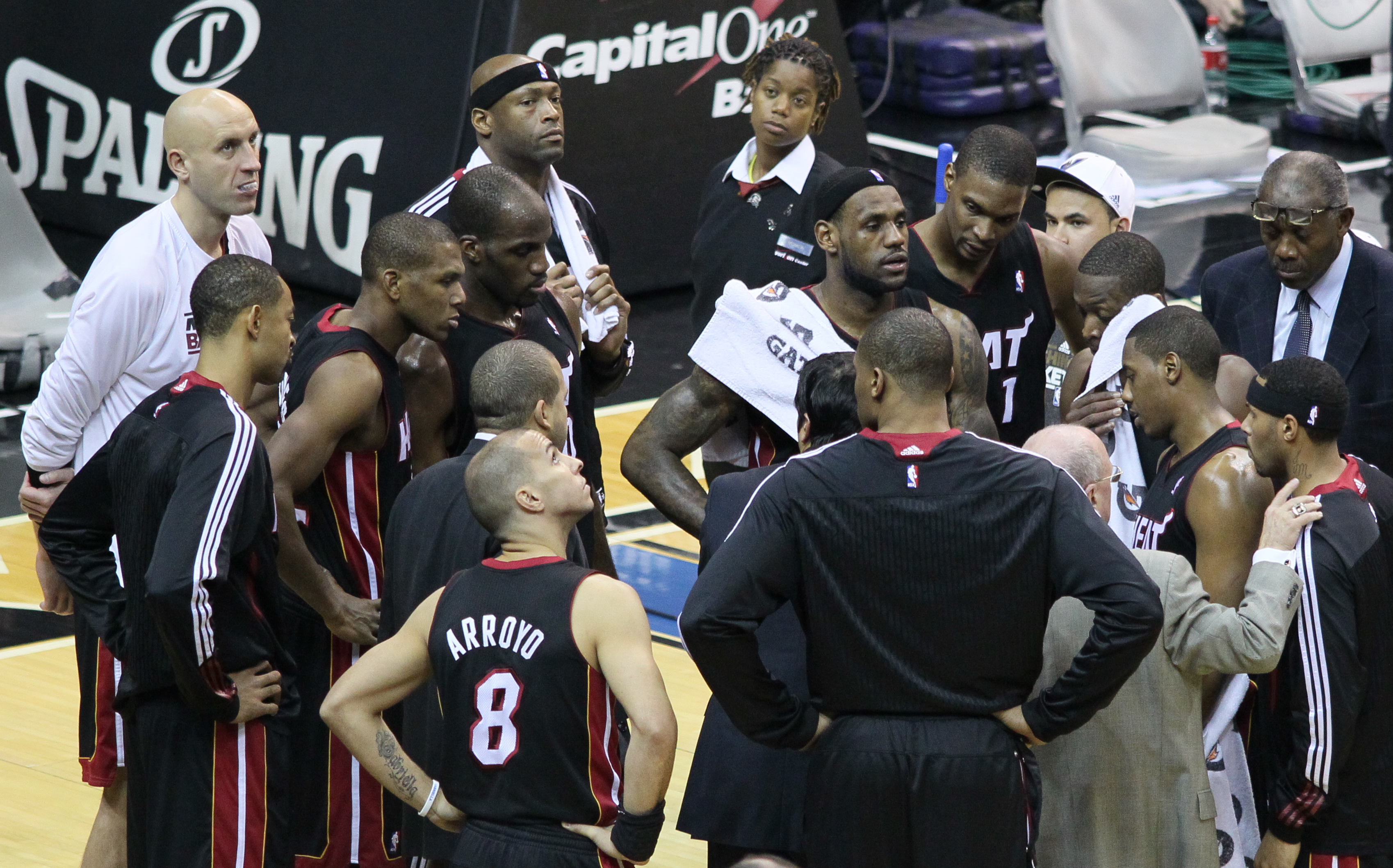 Washington Wizards v/s Miami Heat December 18, 2010